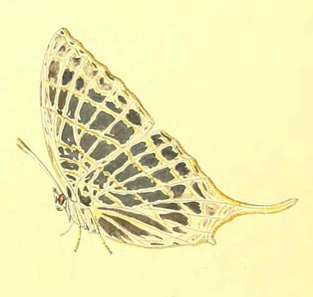 Nymphalis harmonia = Marpesia harmonia